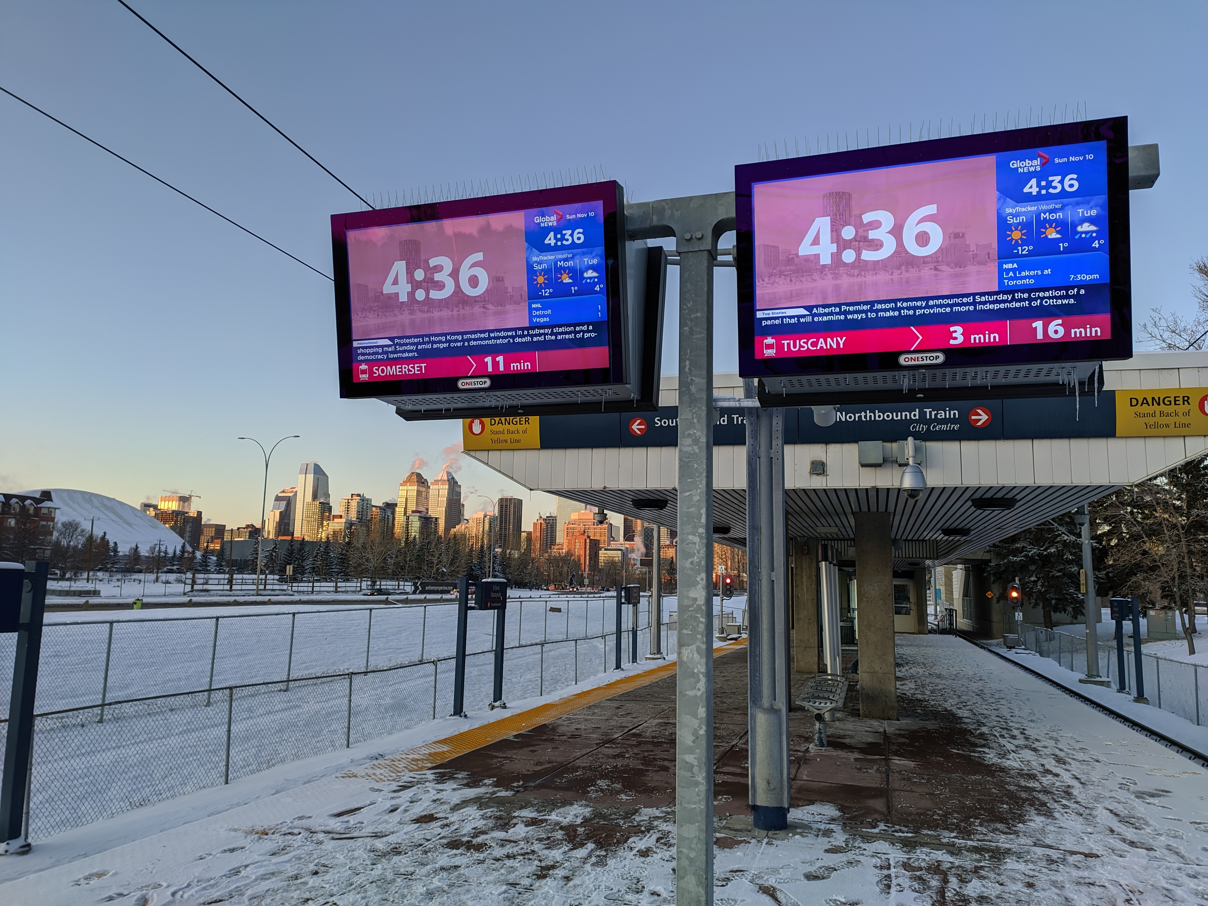 Platform of the Erlton/Stampede station on the CTrain Red Line facing North, November 10, 2019.